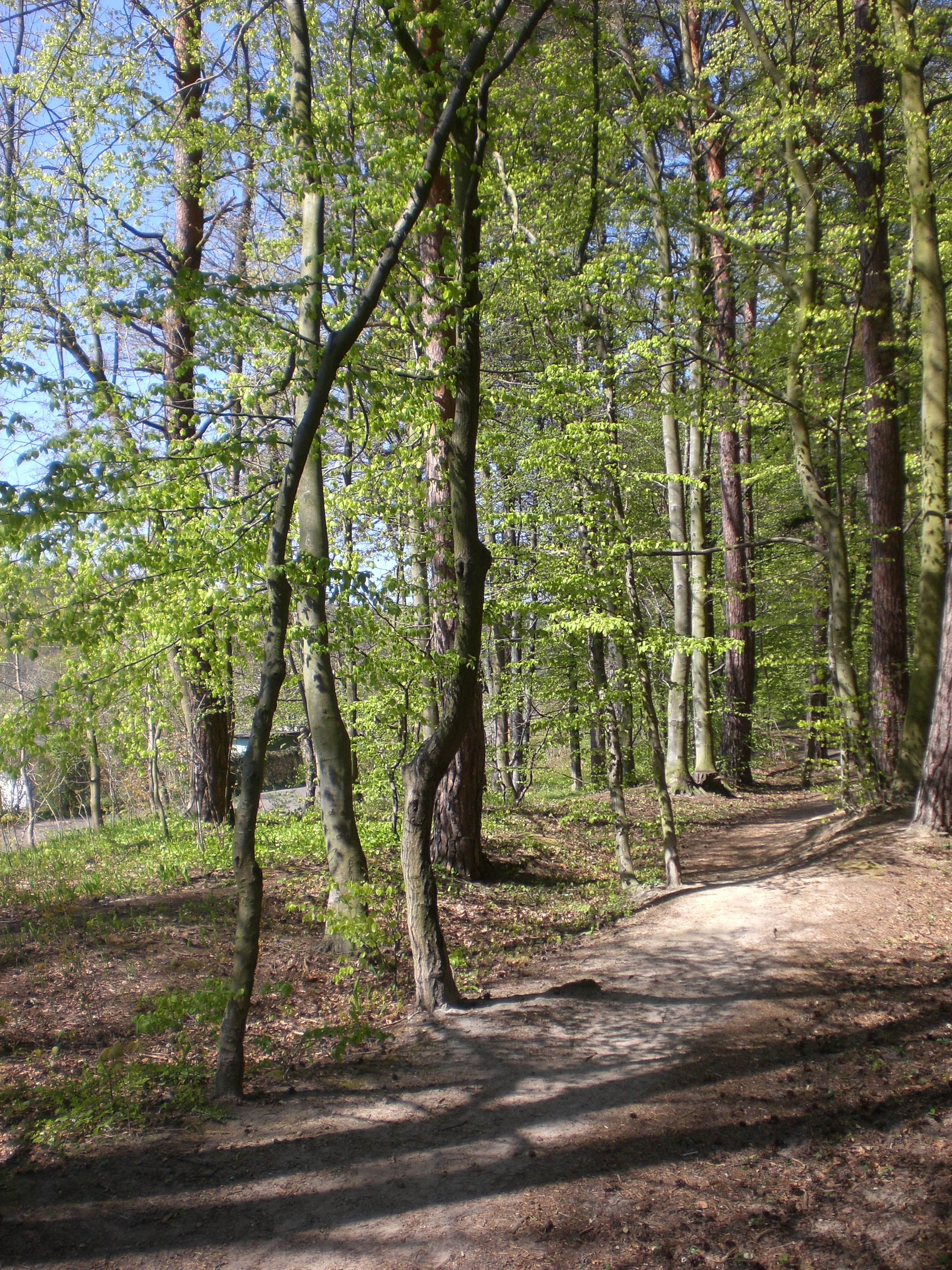 Świemirowska Valley in Sopot, Poland